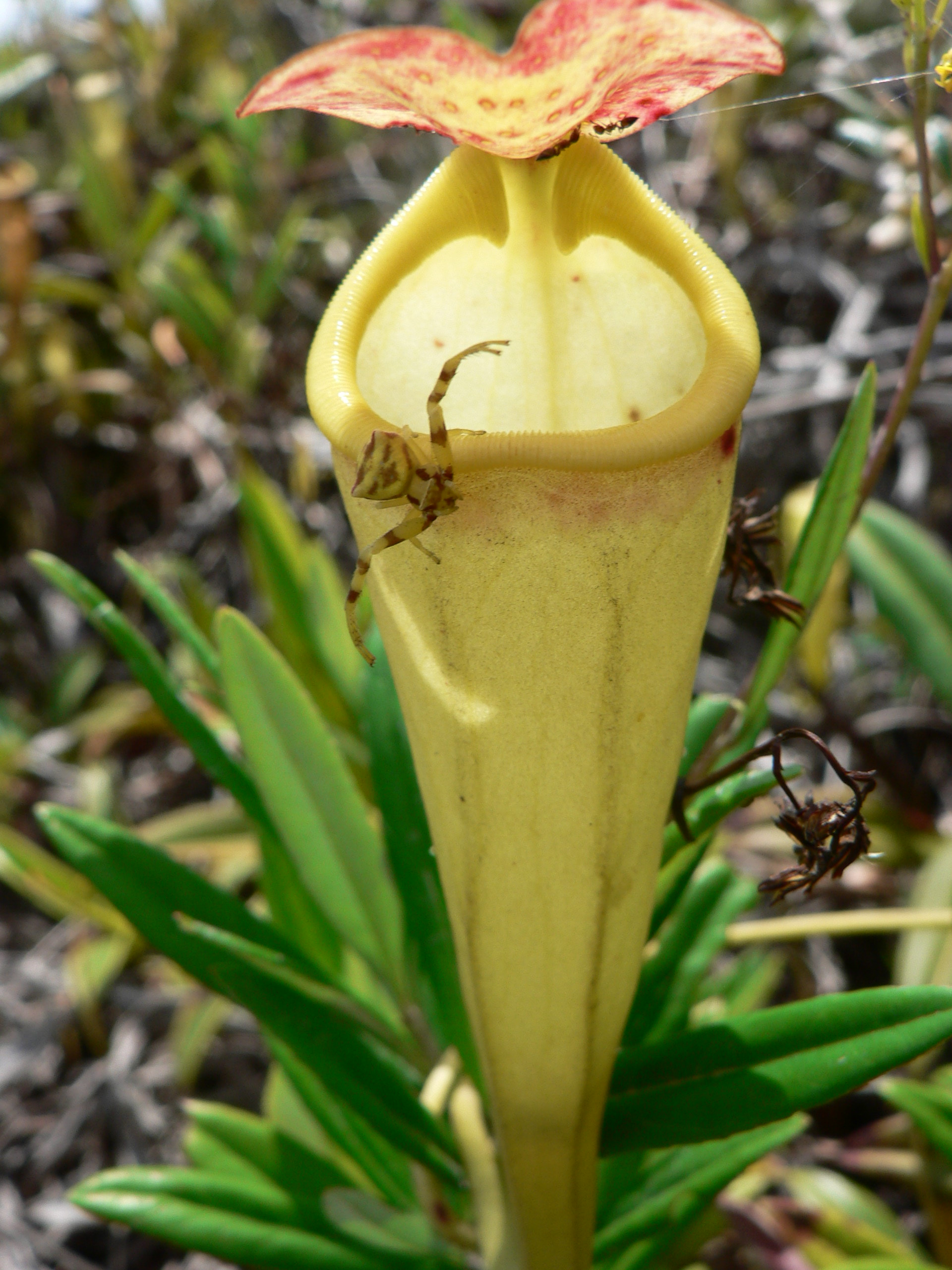 Nepenthes madagascariensis with undetermined Thomisidae spider, east coast of Madagascar